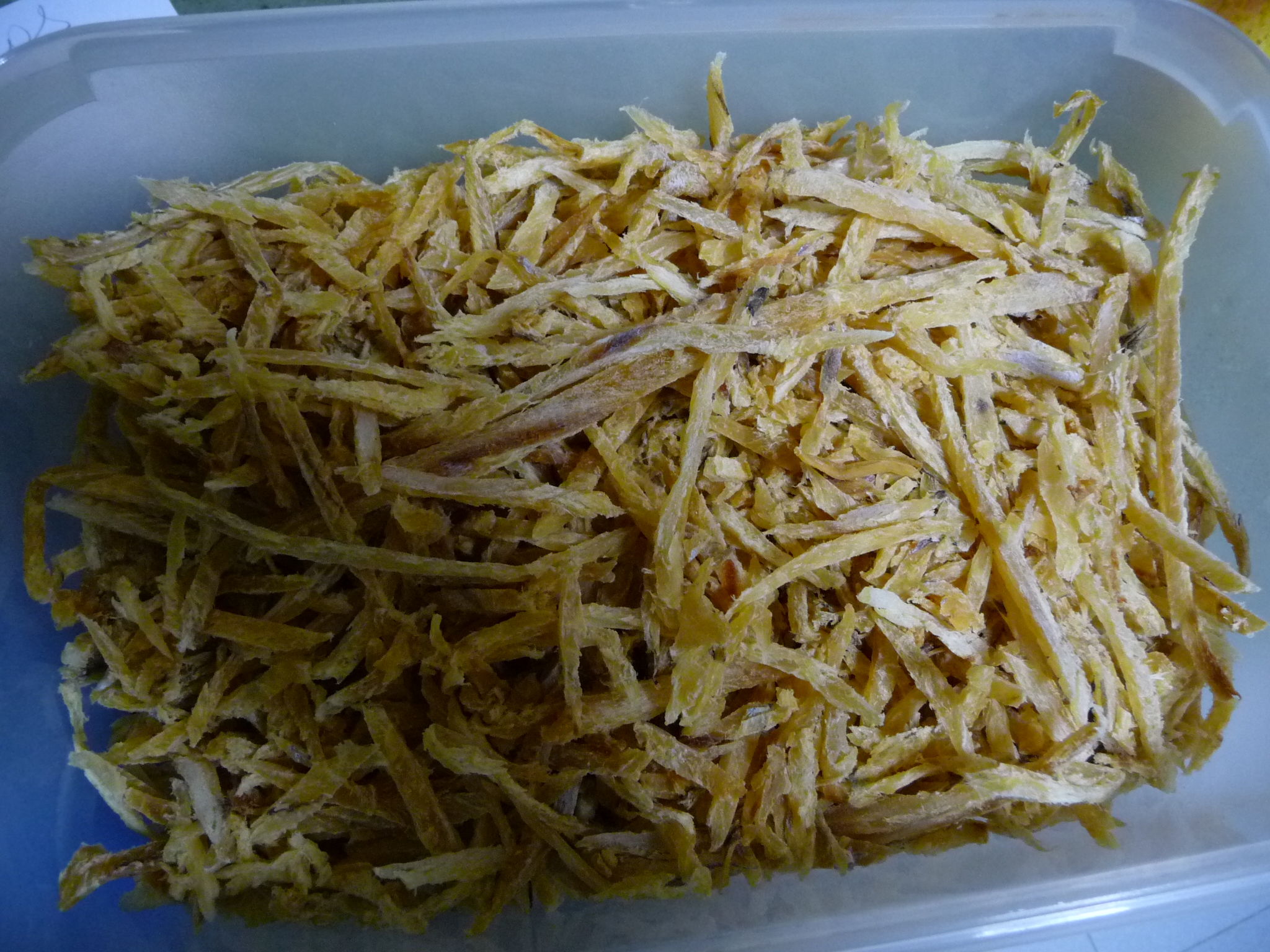 Dry and slated strips of codfish